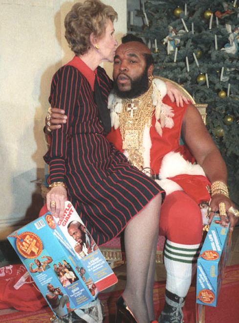 U.S. First Lady Nancy Reagan sitting on lap of actor Mr. T who is dressed as Santa Claus, seated in front of Christmas tree. Reagan kisses Mr. T's forehead. 1983. Original caption: Mrs. Reagan sitting on Santa Claus (Mr. T) lap after reviewing White House Christmas Decorations with the press. 12/12/83.